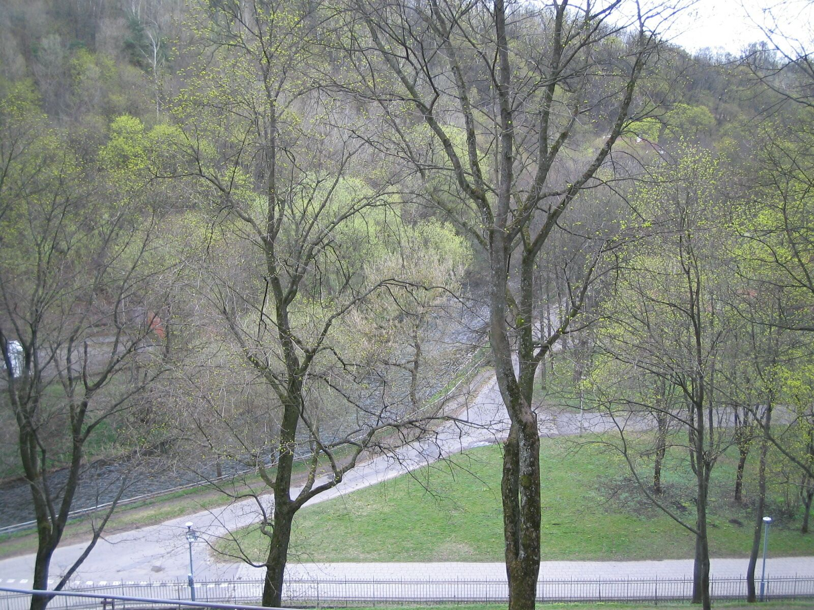 Sereikiškės.